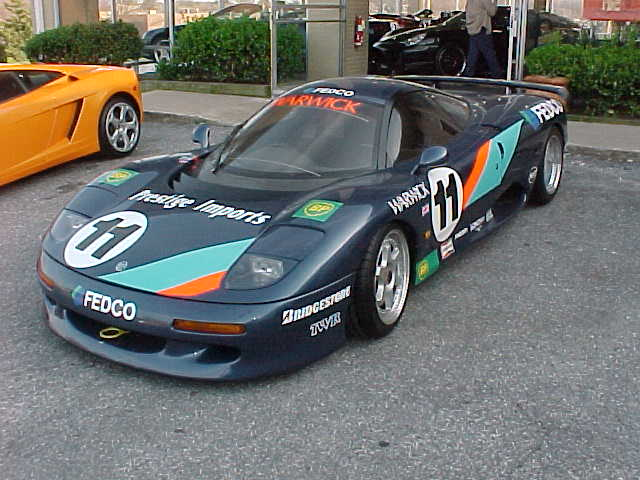 Jaguar XJR-15